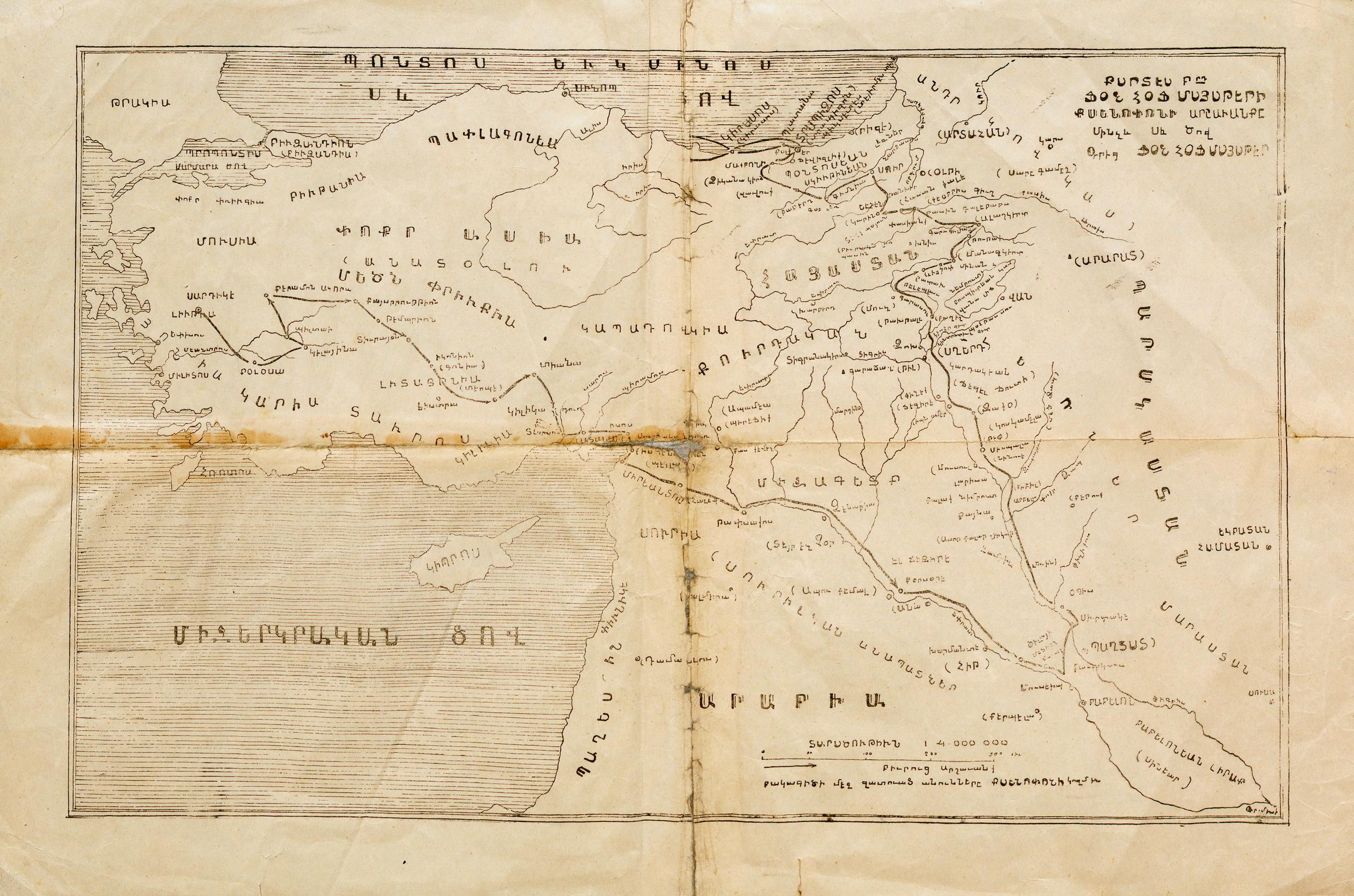 Xenophon's campaigne to the Black sea